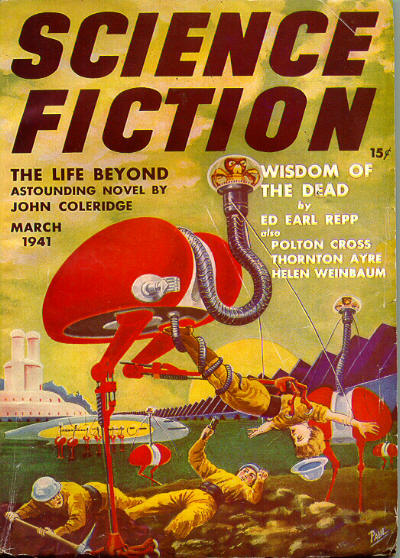 March 1941 cover of the Science Fiction magazine, volume 2, issue 4.